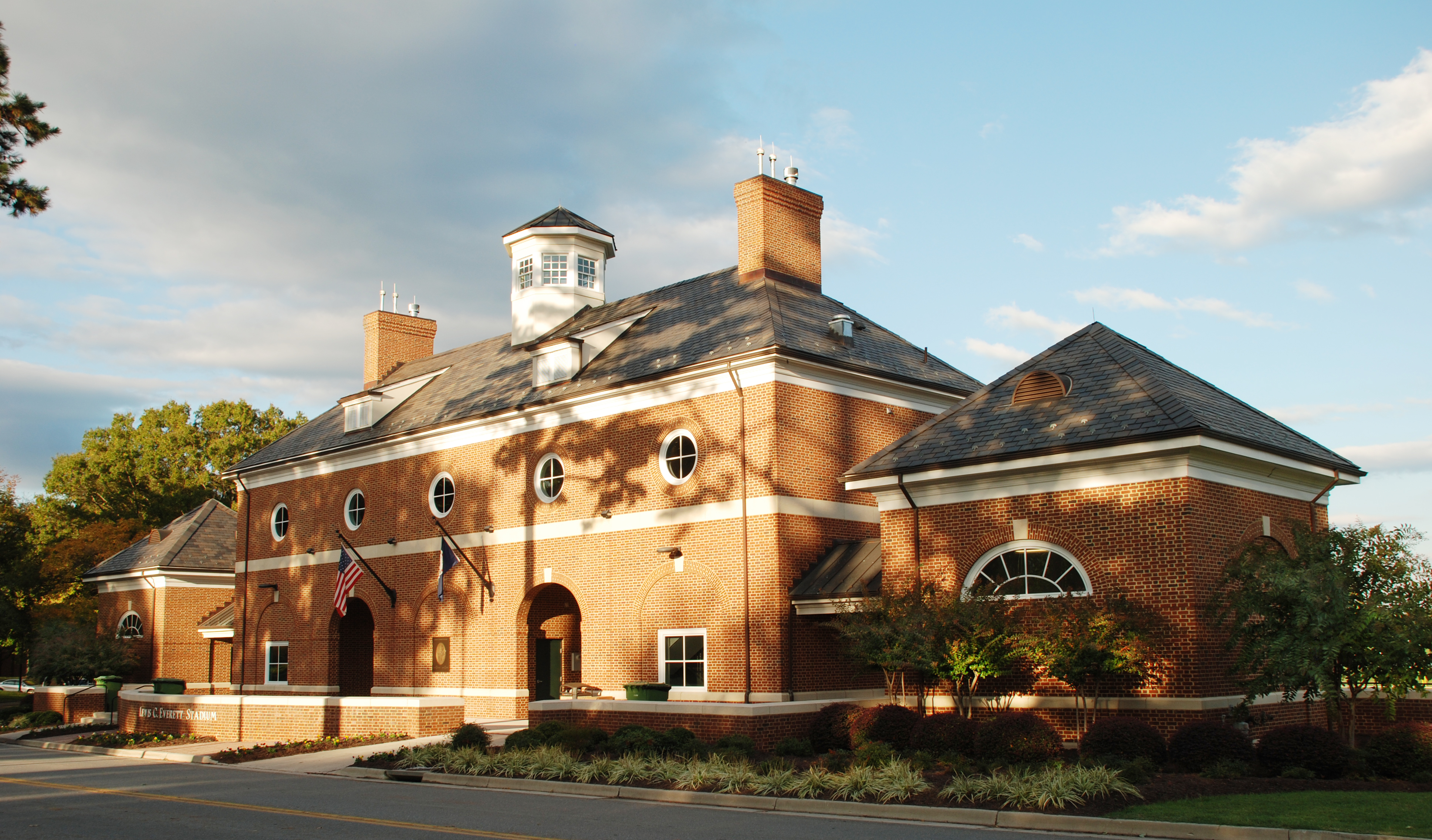 Lewis C Everett Stadium (football stadium) at Hampden–Sydney College.